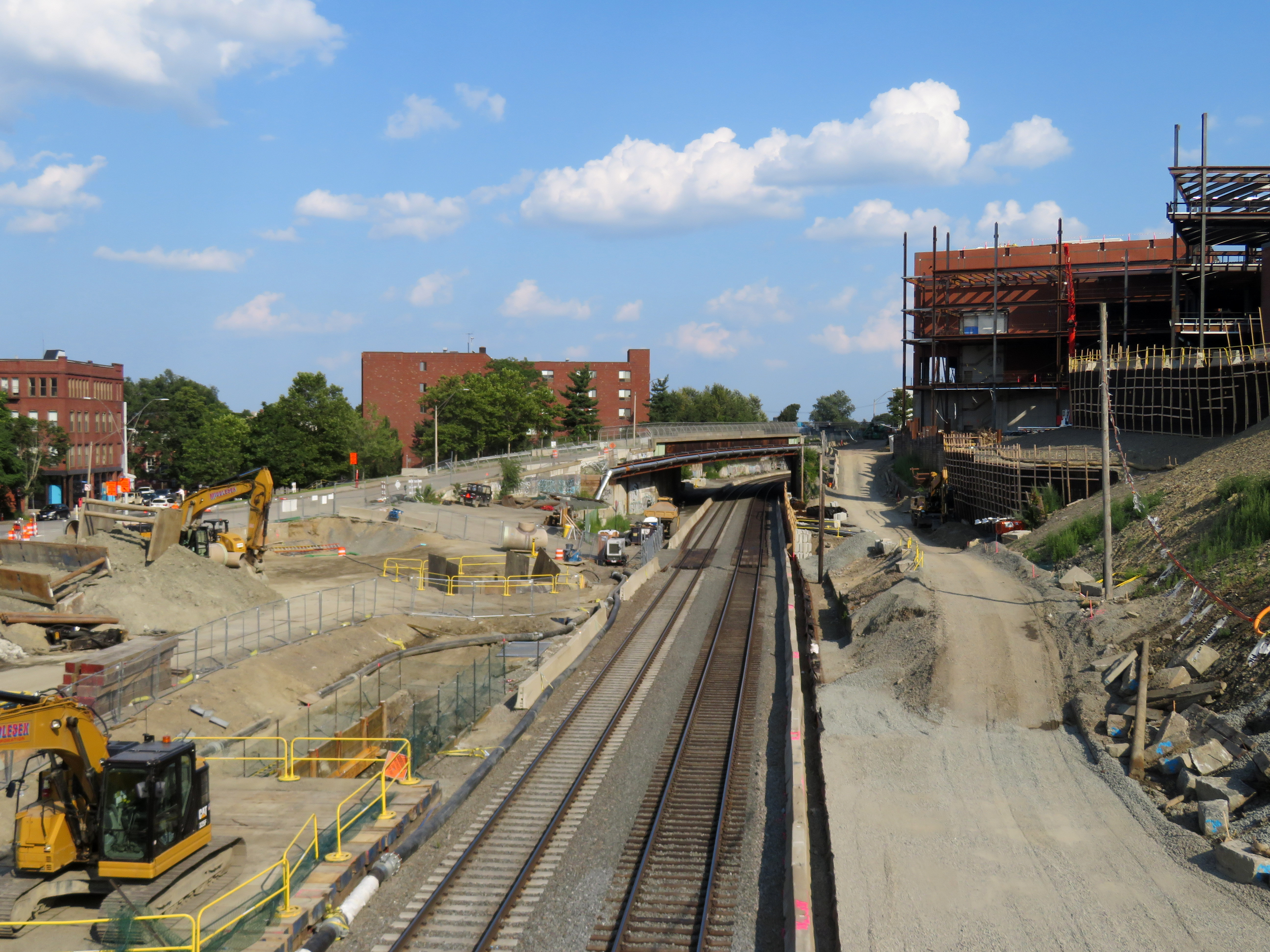 Construction of Gilman Square station in July 2019